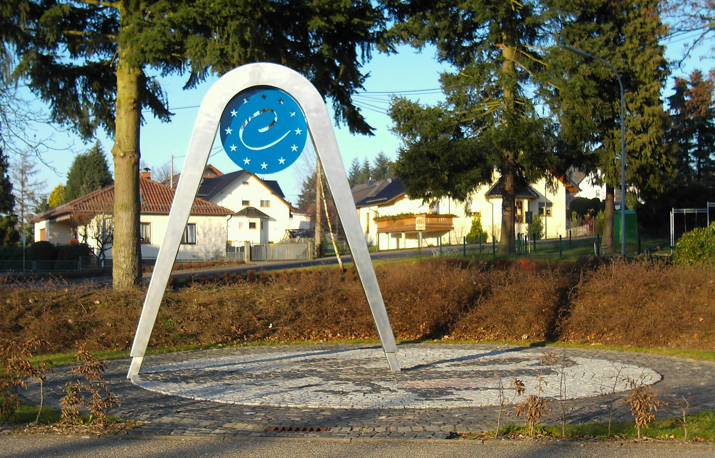 Memorial Zirkelschlag in Kleinmaischeid, represents the geographical center of the European Union from Mai 1, 2004 until December 31, 2006.